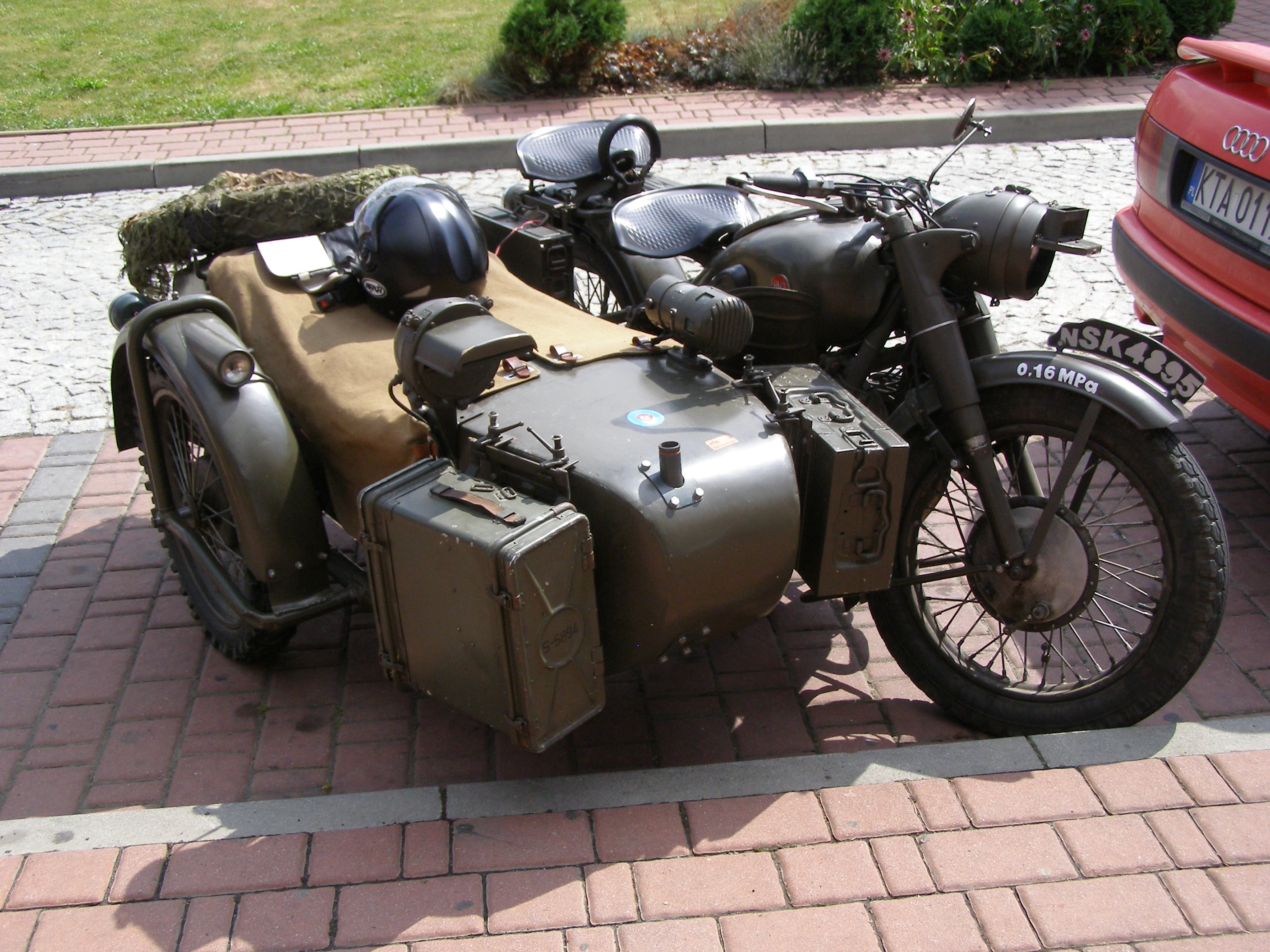 Bobowa - Market Square - IMZ M-72 motorcycle